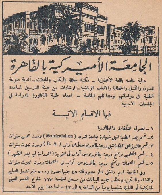 American university in Cairo 1935